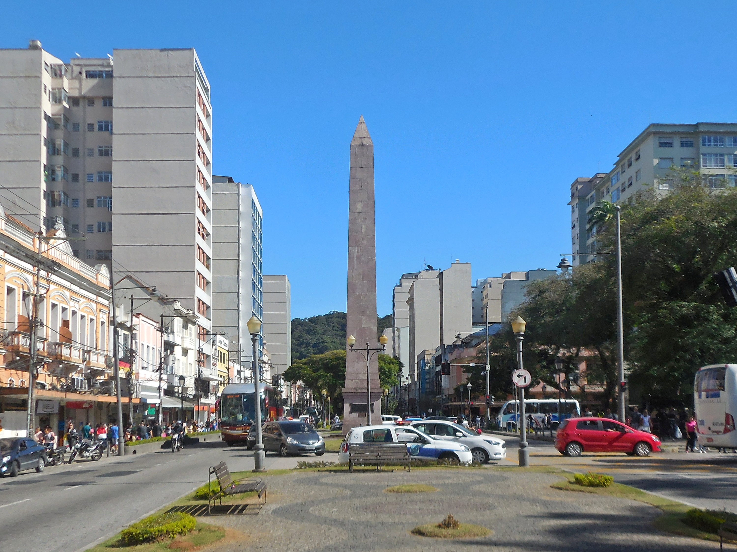 Praça do Obelisco (Obelisco Square), in Petrópolis, Rio de Janeiro, Brazil.